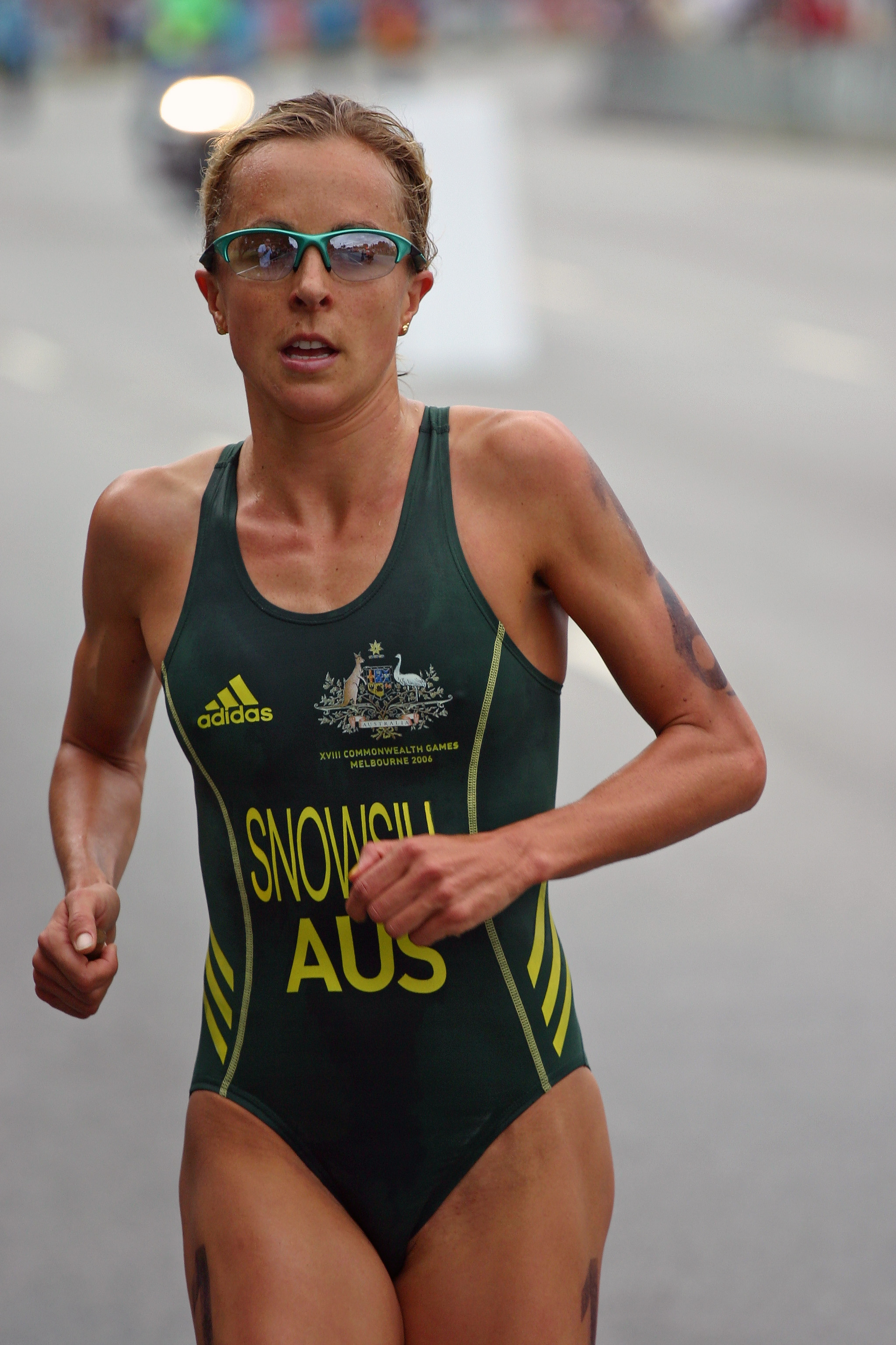 Commonwealth Games triathlon held on Beach Road, St Kilda.